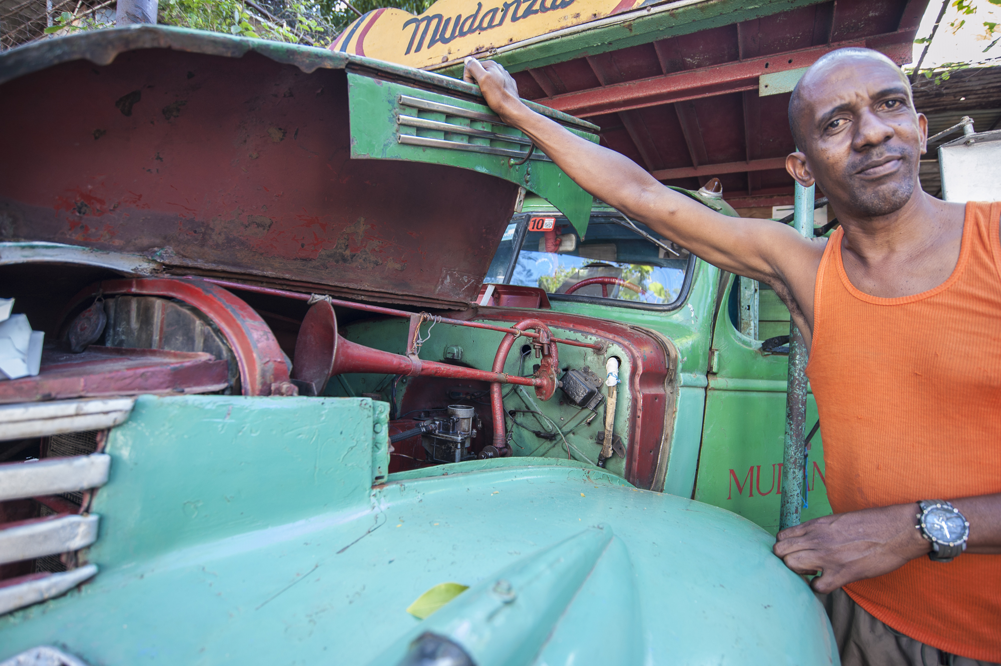 Antique Ford Truck, Jan 2014, image by Marjorie Kaufman